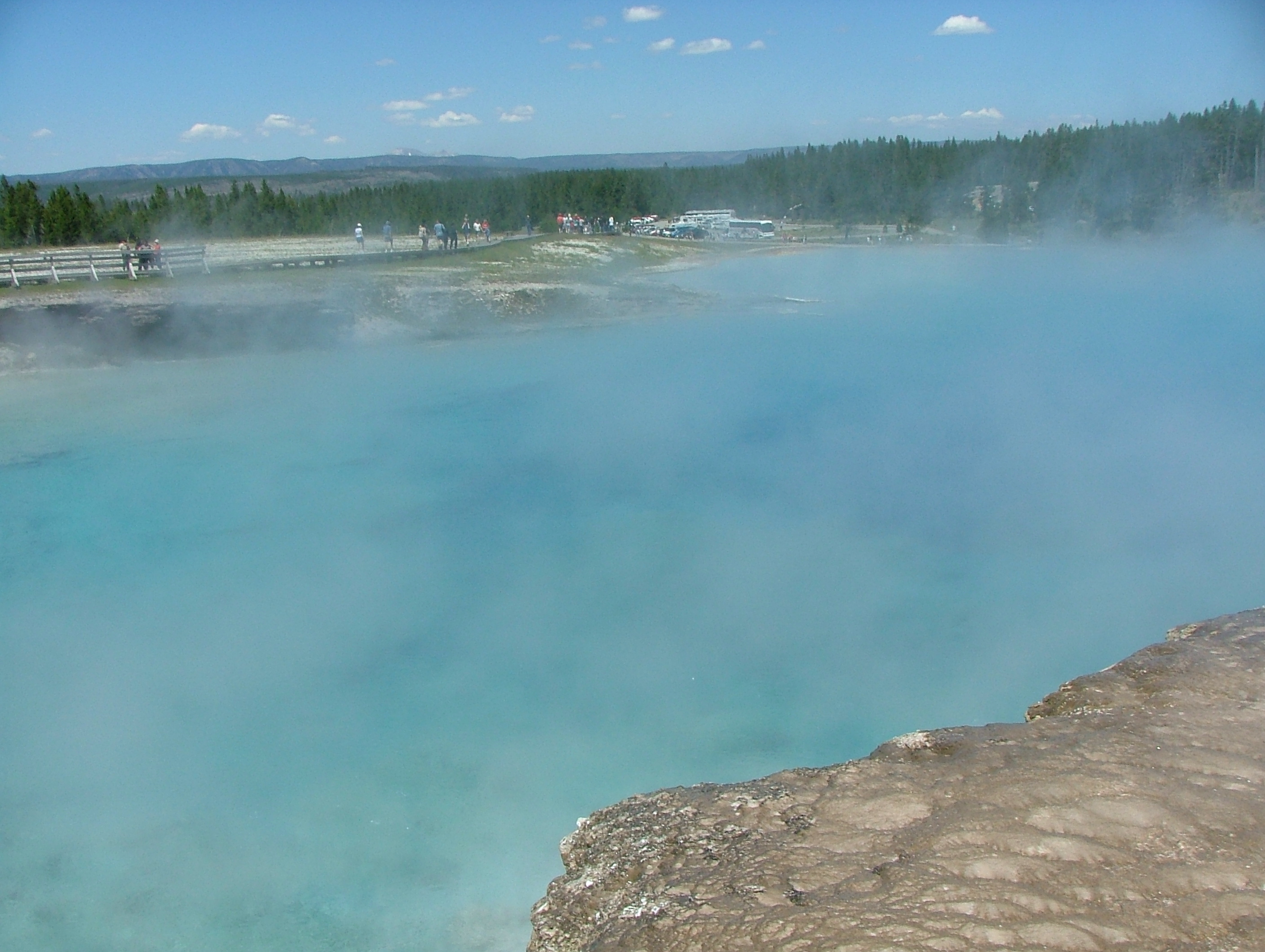 Excelsior Geyser Crater, july 2006.